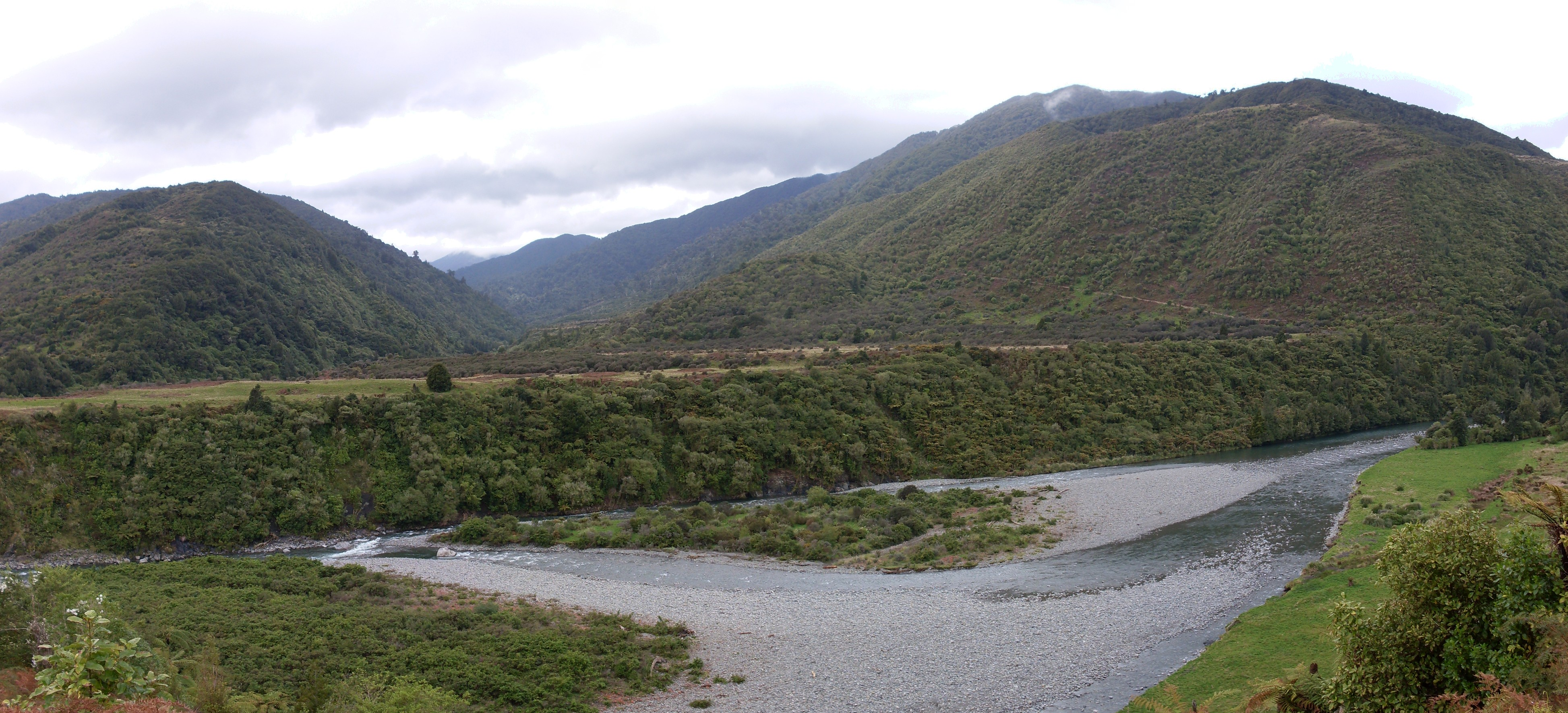 Panorama of the Otaki river before it joins at Otaki Forks with the Waiotauru river and the Waitatapia river. Picture was taken looking to the Northern river terrace, Otaki river coming from the Otaki Gorge (right) and going to the Forks (left). Tararua Forest Park, Otaki, New Zealand.